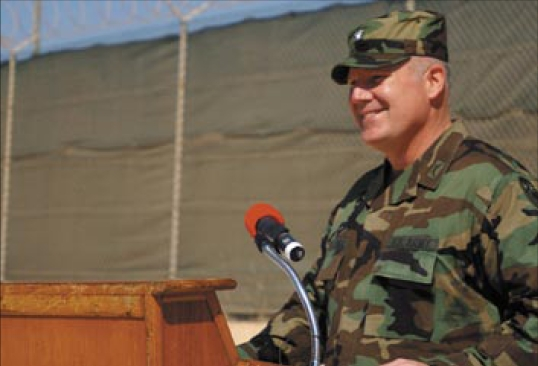 Michael Bumgarner gives a speech at Guantanamo.